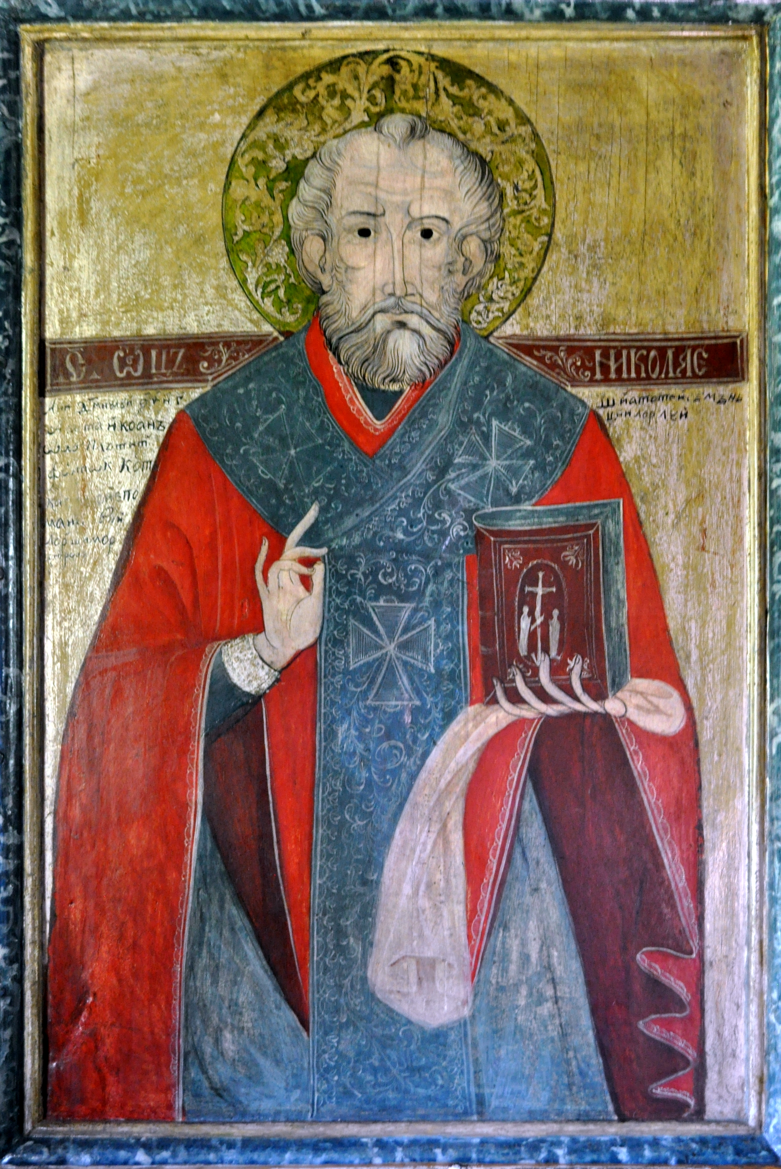 Wooden church in Sub Piatră, Alba countyRomână: Biserica de lemn din Sub Piatră, județul Alba